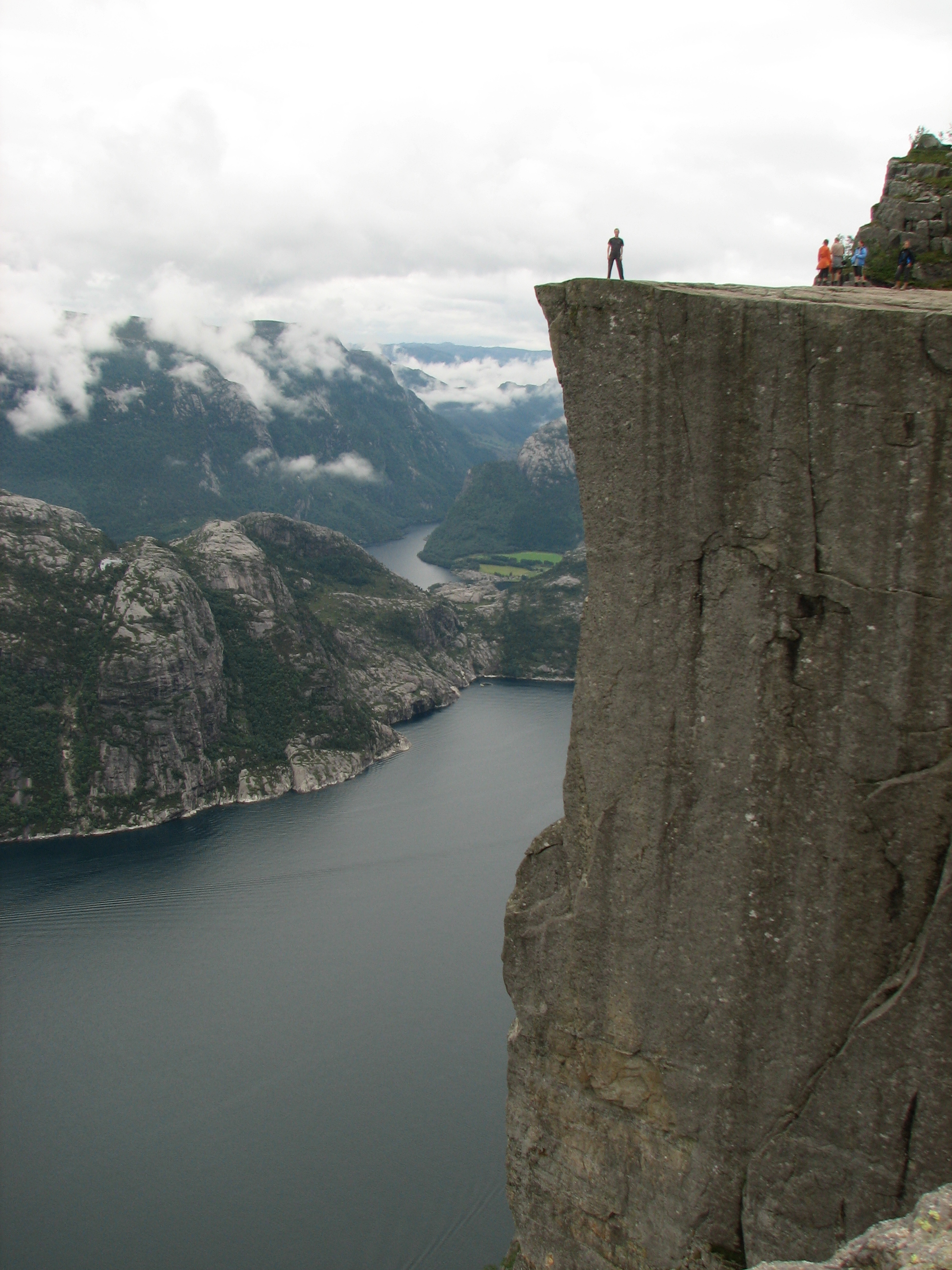 Lysefjorden - a man standing on Preikestolen